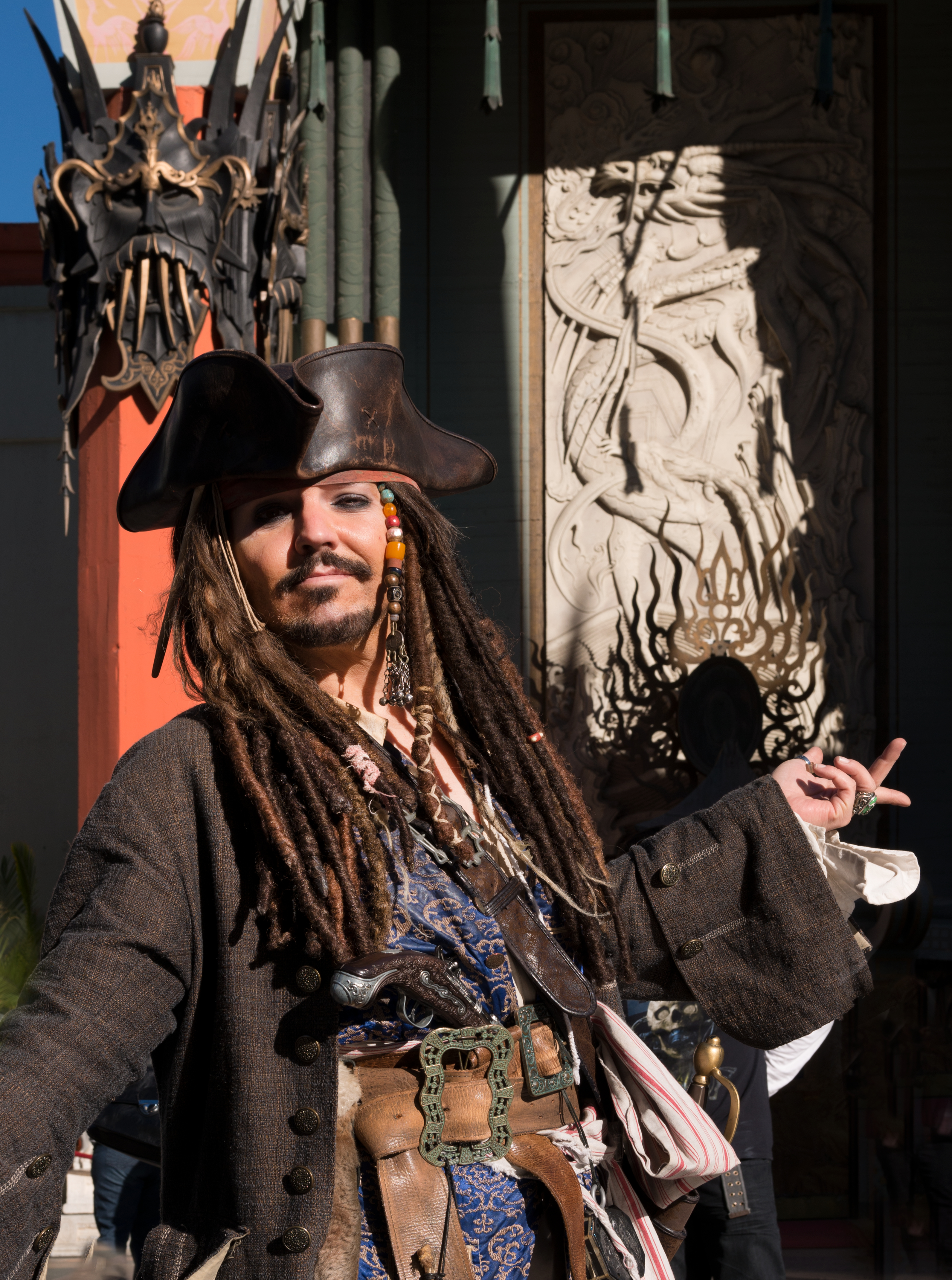 Dale Clark poses as actor Johnny Depp, in character from the movie "Pirates of the Caribbean," on the street in the Hollywood section of Los Angeles, California.